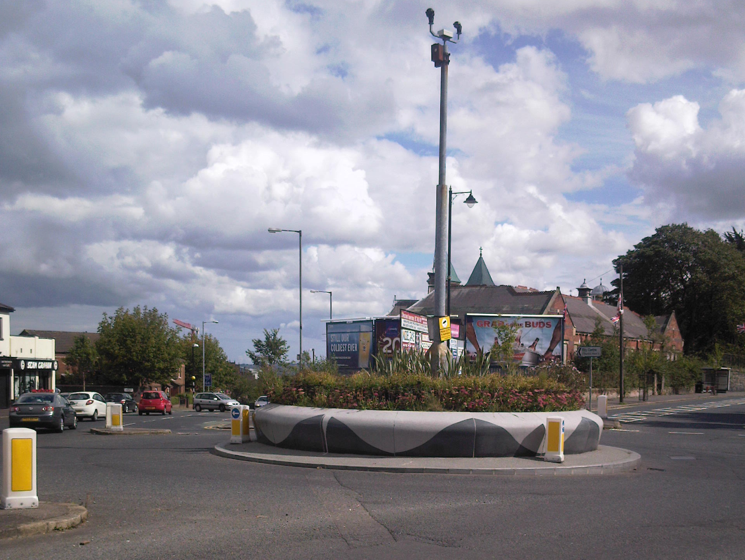 Roundabout junction on Crumlin Road, Belfast